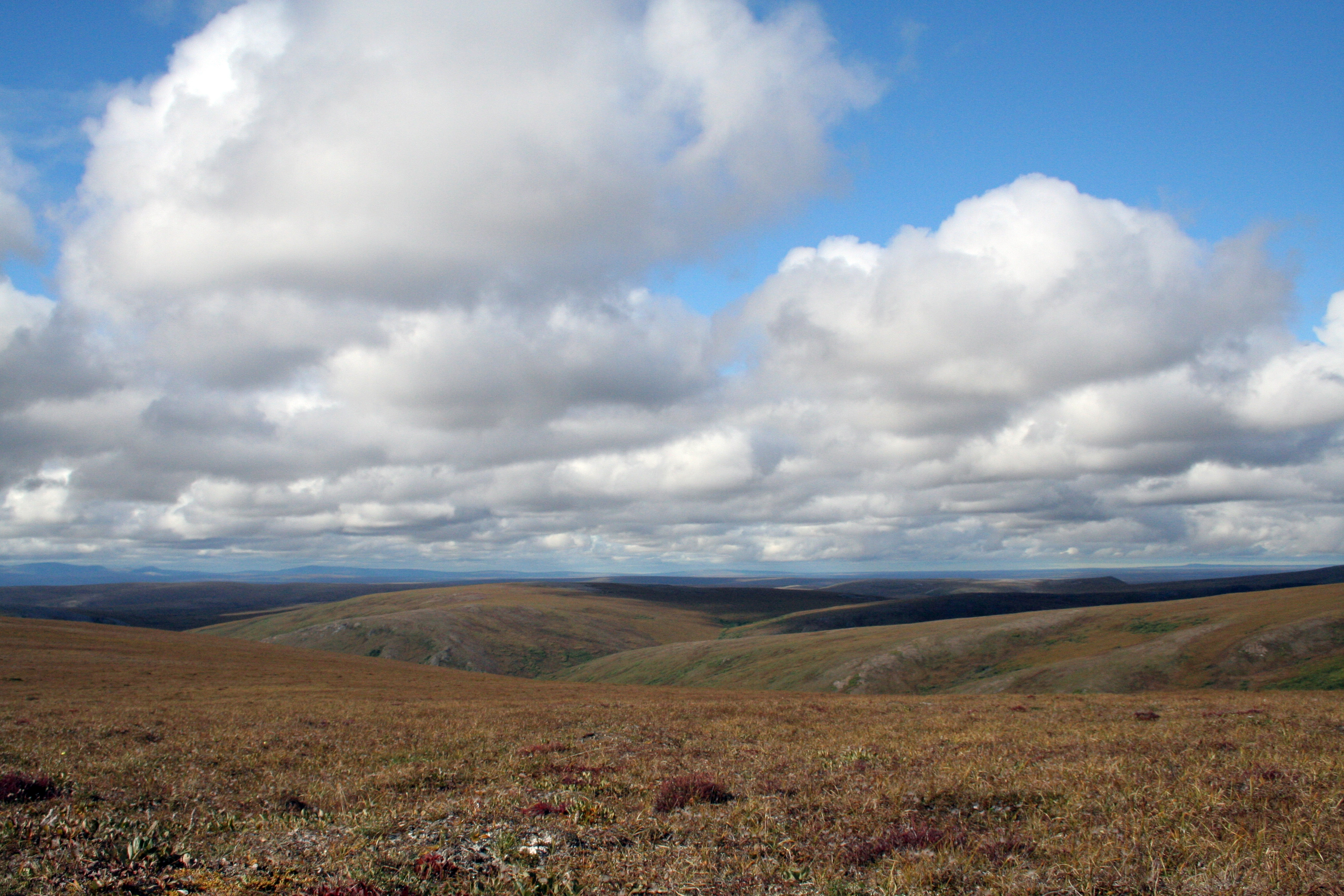 Bering Land Bridge National Preserve, Cottonwood Creek, Alaska. The autumn tundra rolls across the landscape of into the distance as silent white clouds glide through a blue sky overhead.